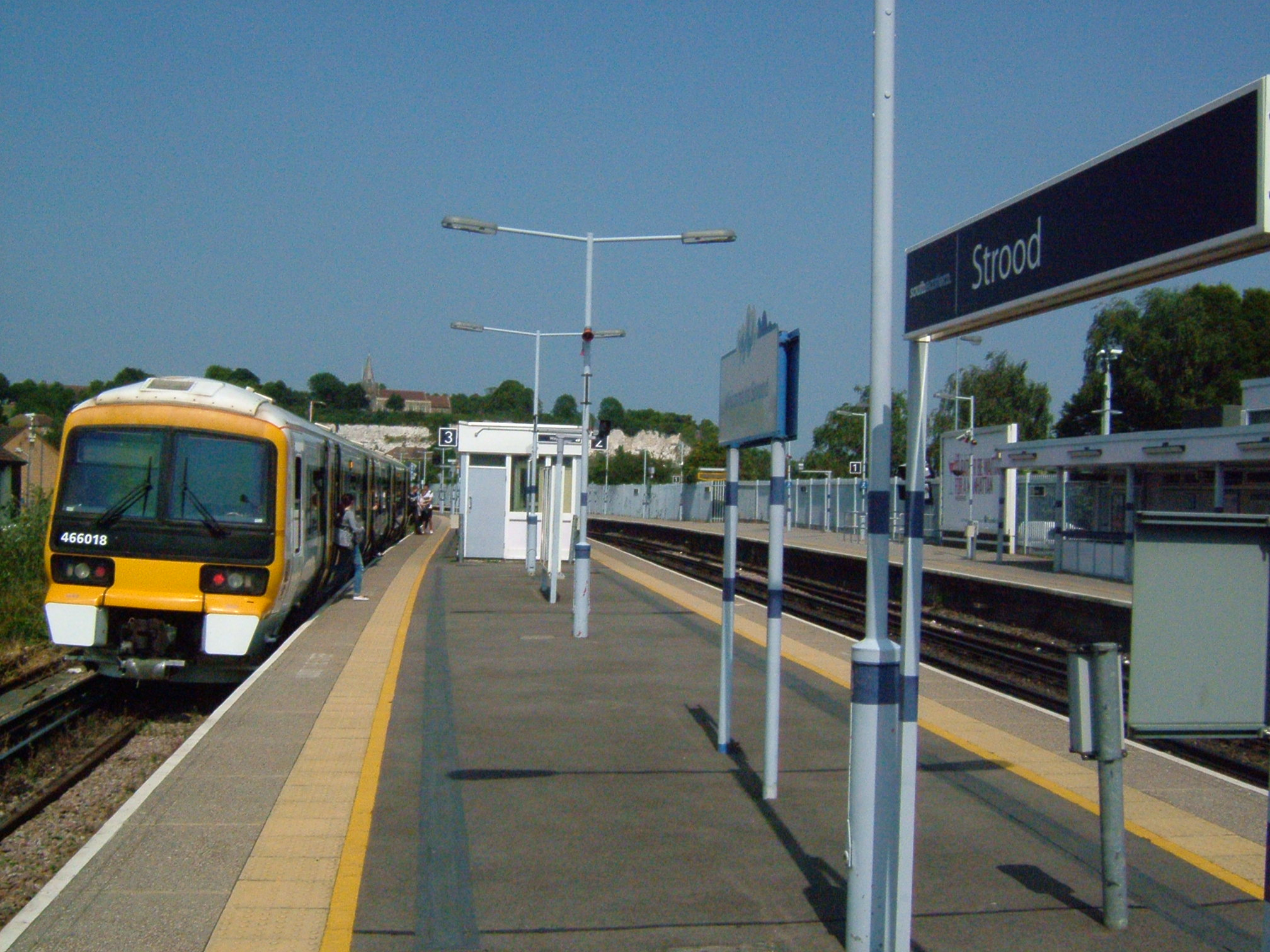 Strood railway station Platform 1